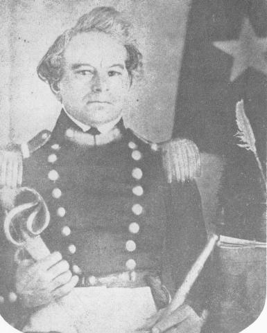 George Fisher (1795–1873) - portrait as Major of the Texas Militia, probably in 1843.